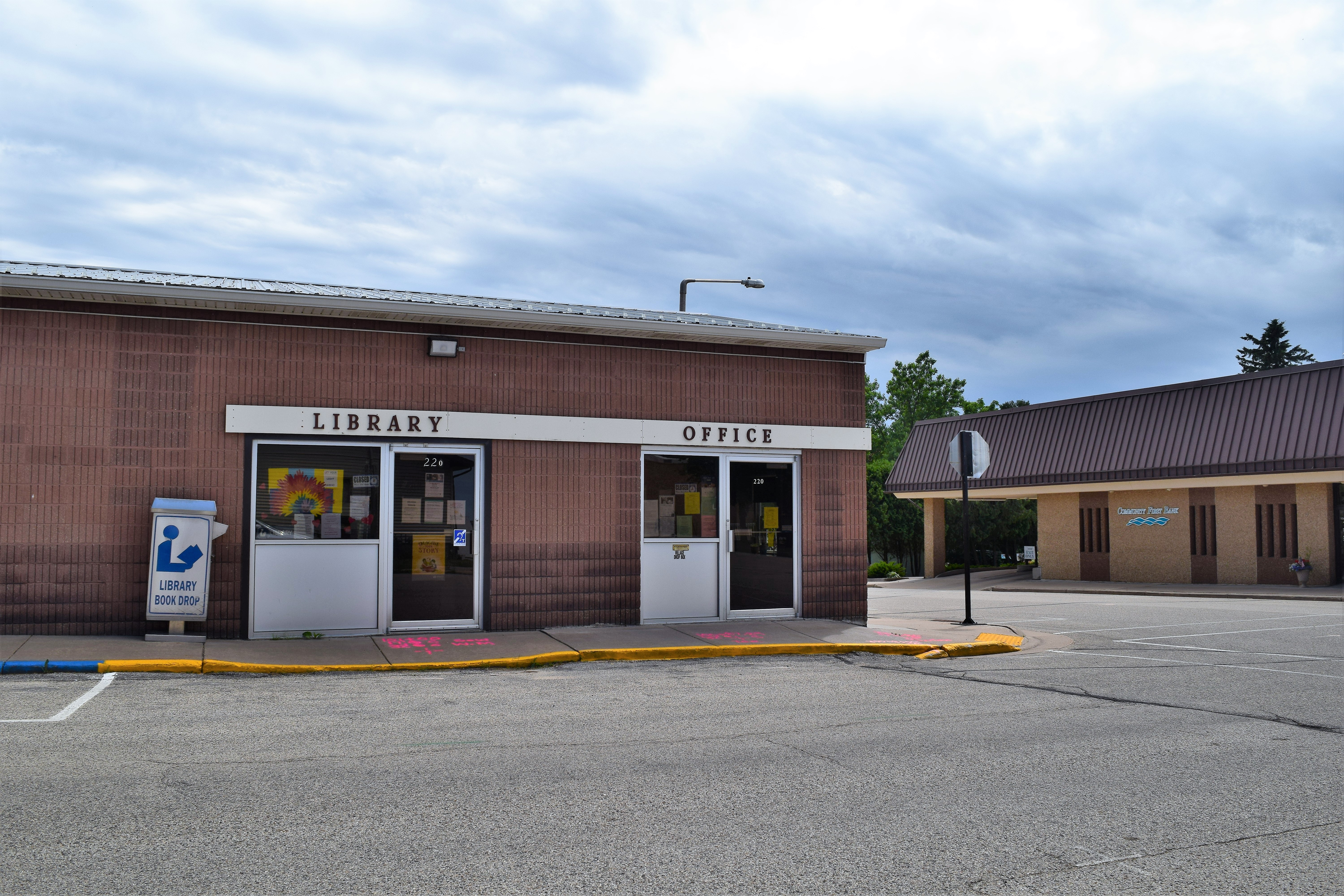 Public library in Livingston, Wisconsin.